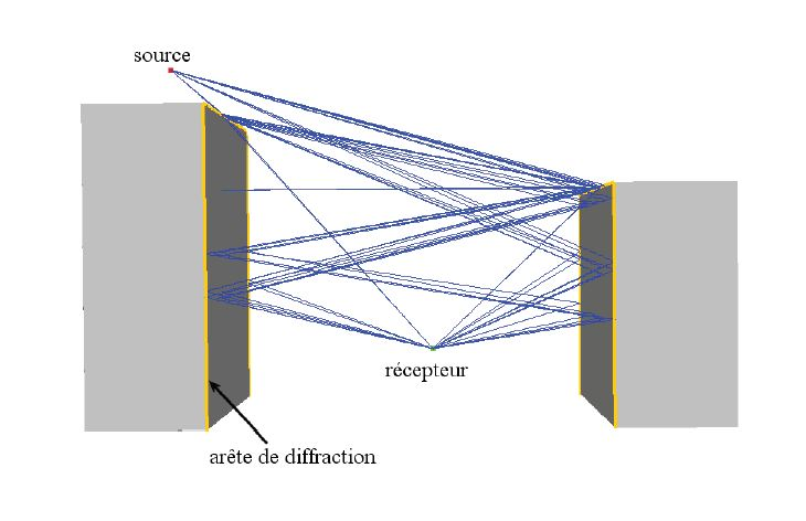 Lancer de rayons